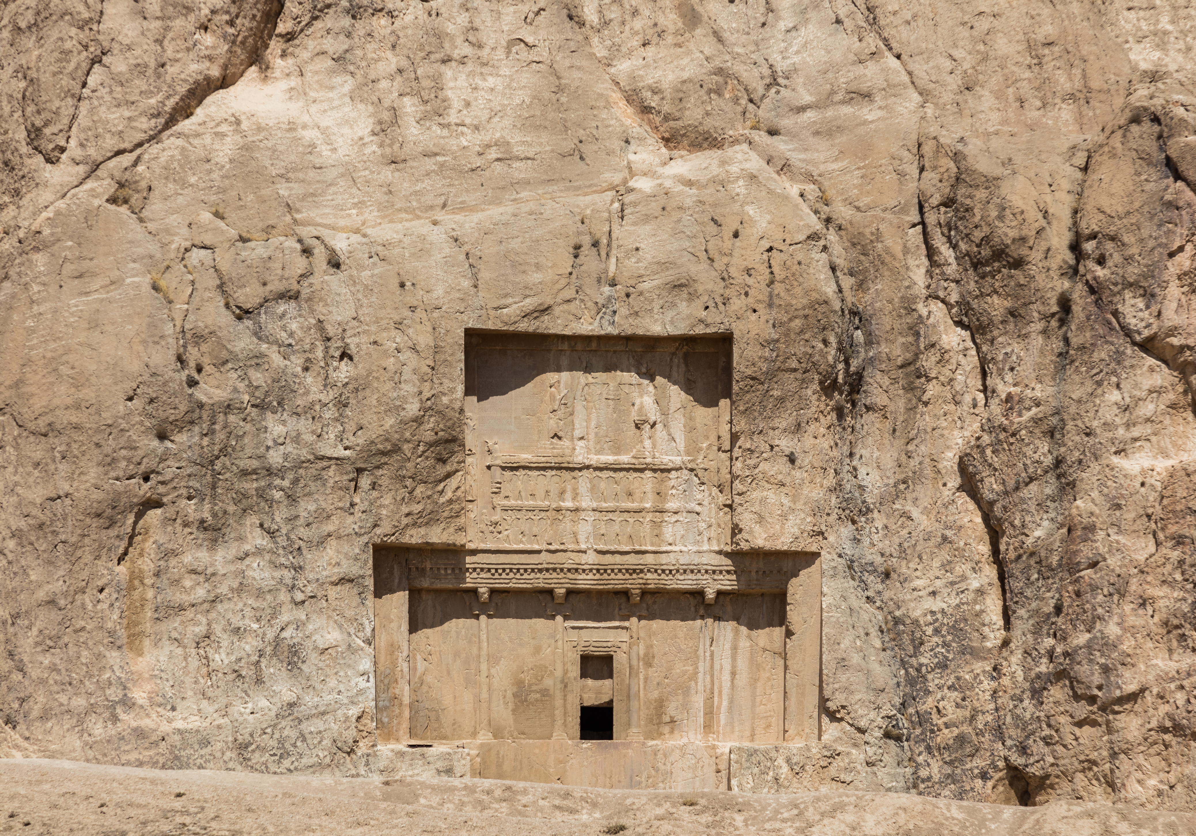 Naghsh-e rostam, Iran